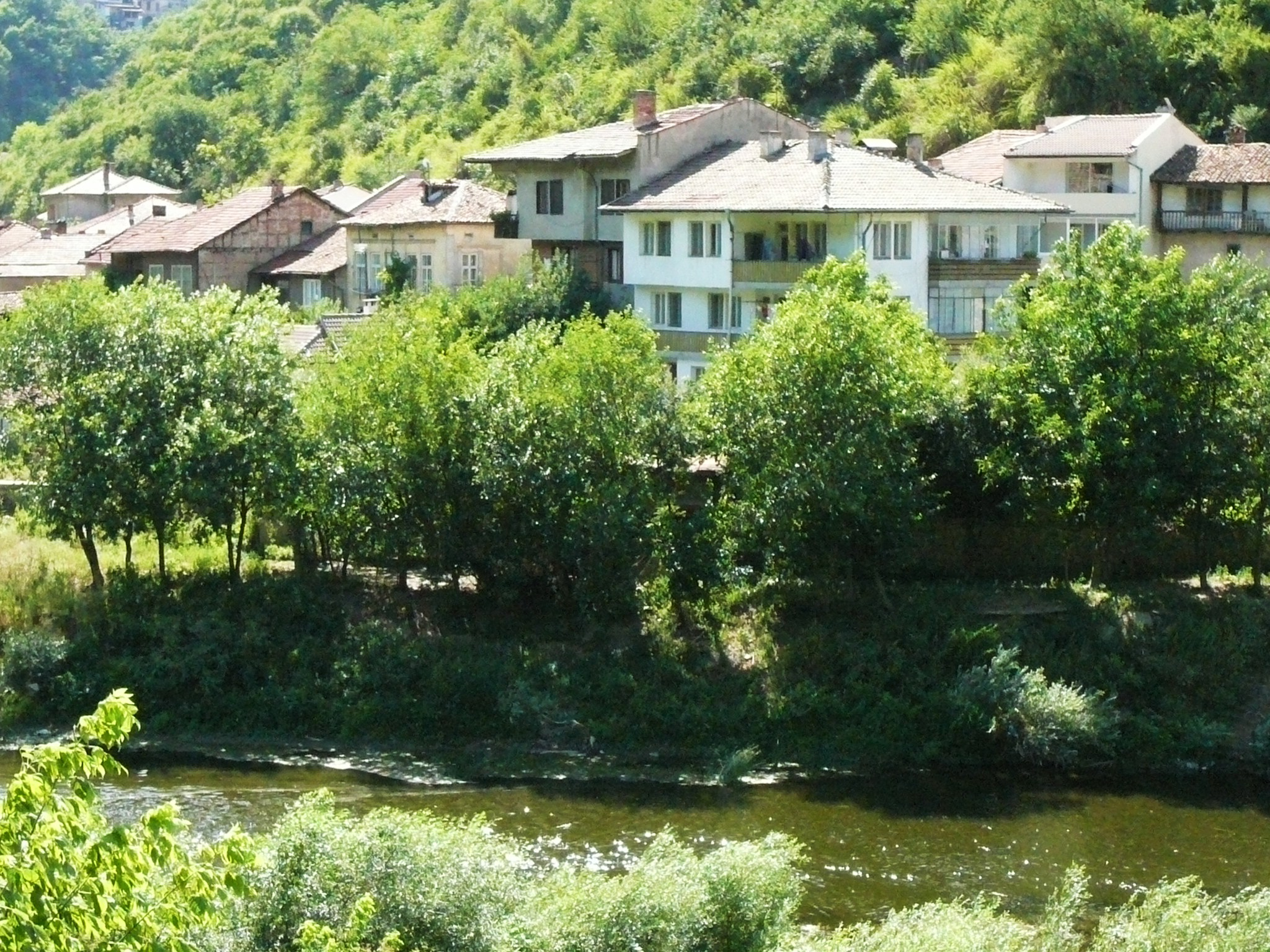 Category:Yantra River, Veliko Tarnovo, Bulgaria